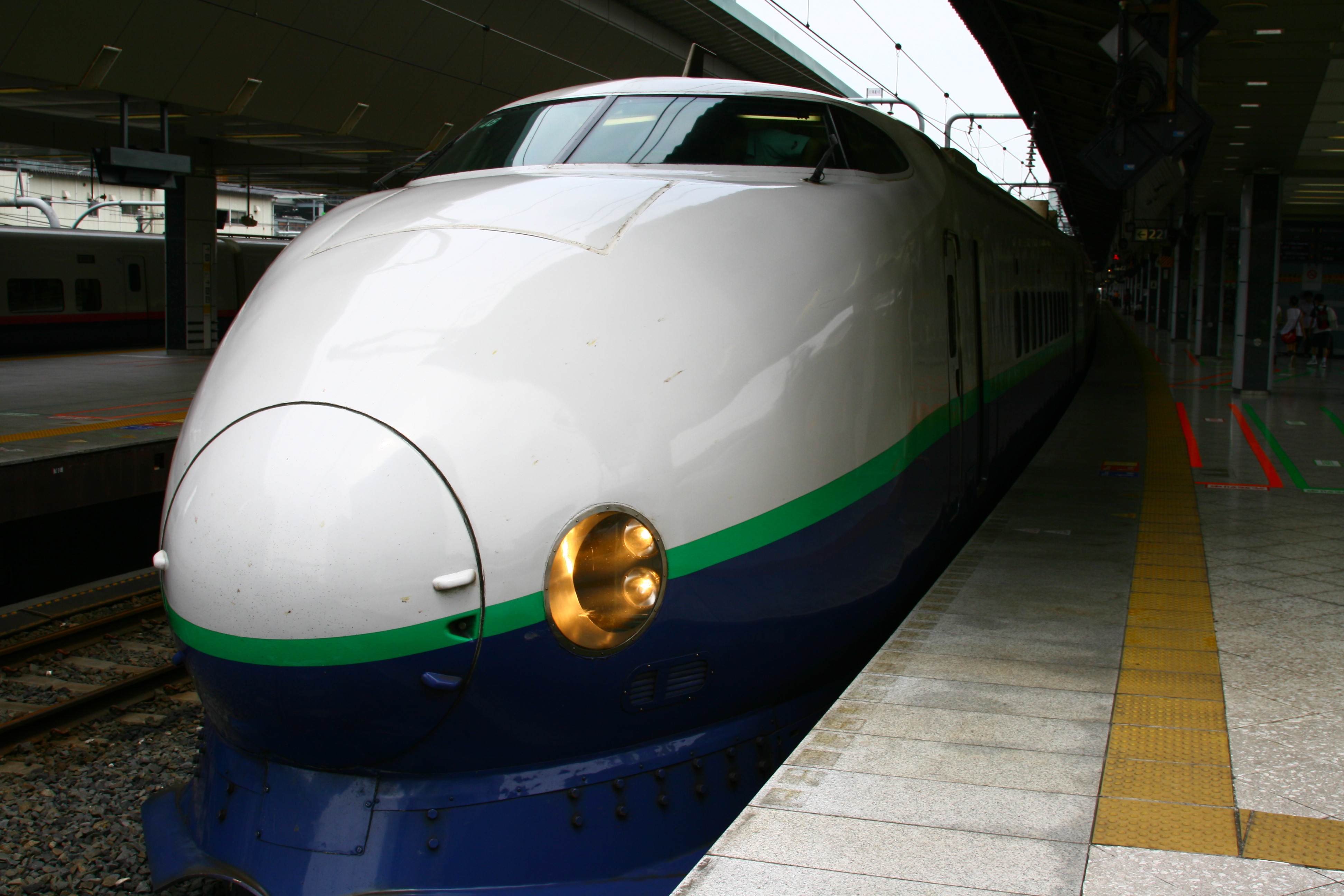 Renewed Shinkansen 200